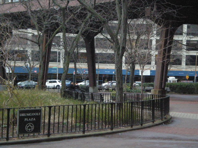 This photo is of Wikipedia Takes Manhattan location code 166, Drumgoole Plaza.